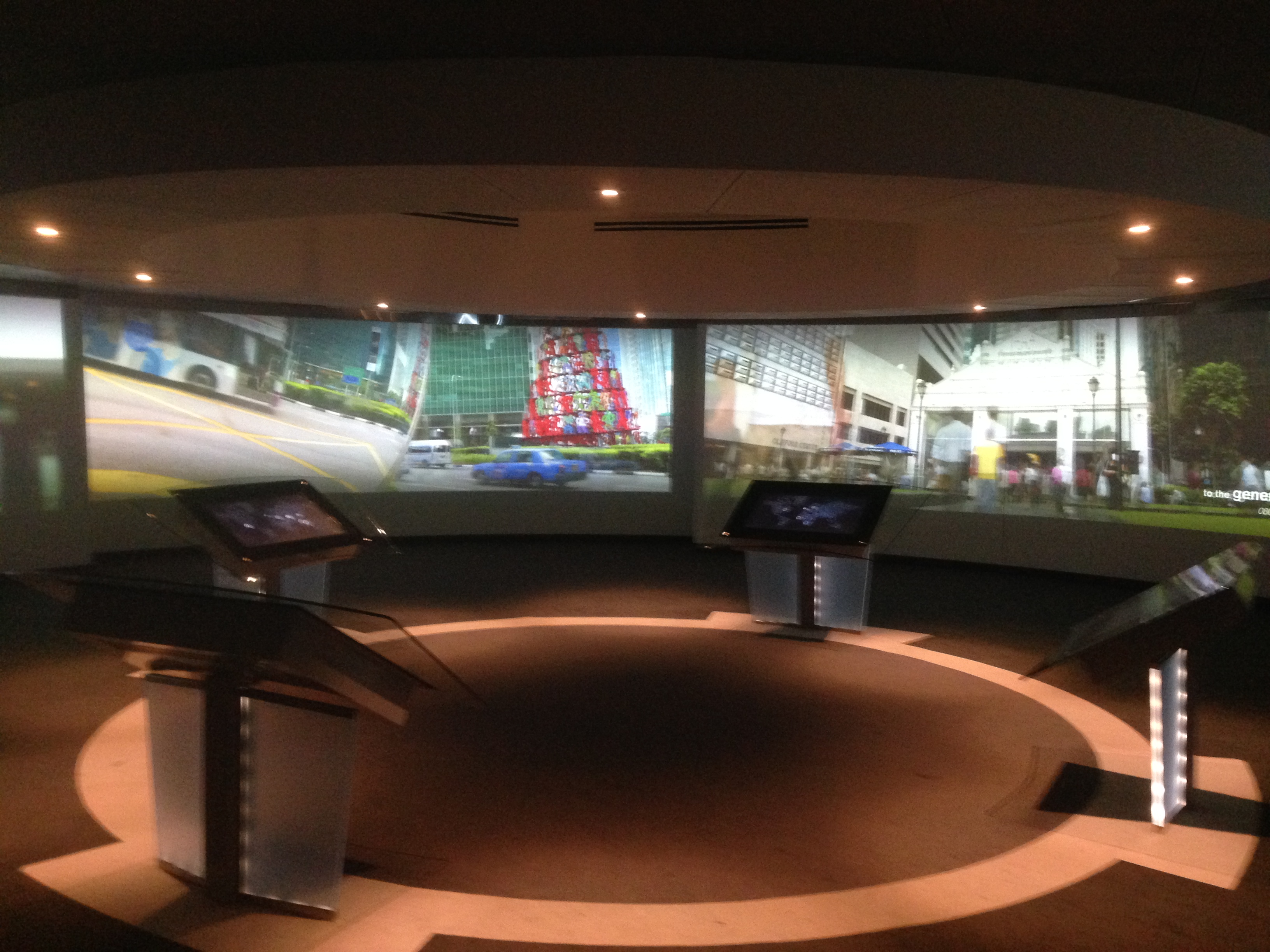 270 degree video panorama exhibit of a normal day in Singapore